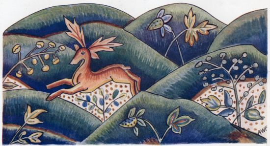 "from an 18th century (?) curtain done in solid crewel work, in somewhat bright colouring" ..."A portion of the terra firma of the curtain. The strawberries and clear parts of the ground are worked in French knots. The plants are very useful in breaking up the solid masses of dark colour, and the stag serves to introduce into the base of the work the colouring of the acorns above (on plates 1 and 2). As a rule this base of a design repeats all the colourings used throughout."